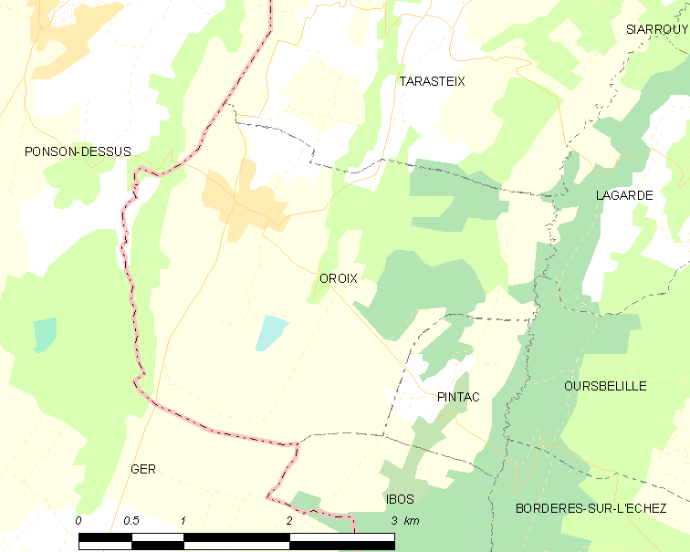 Map of French municipality